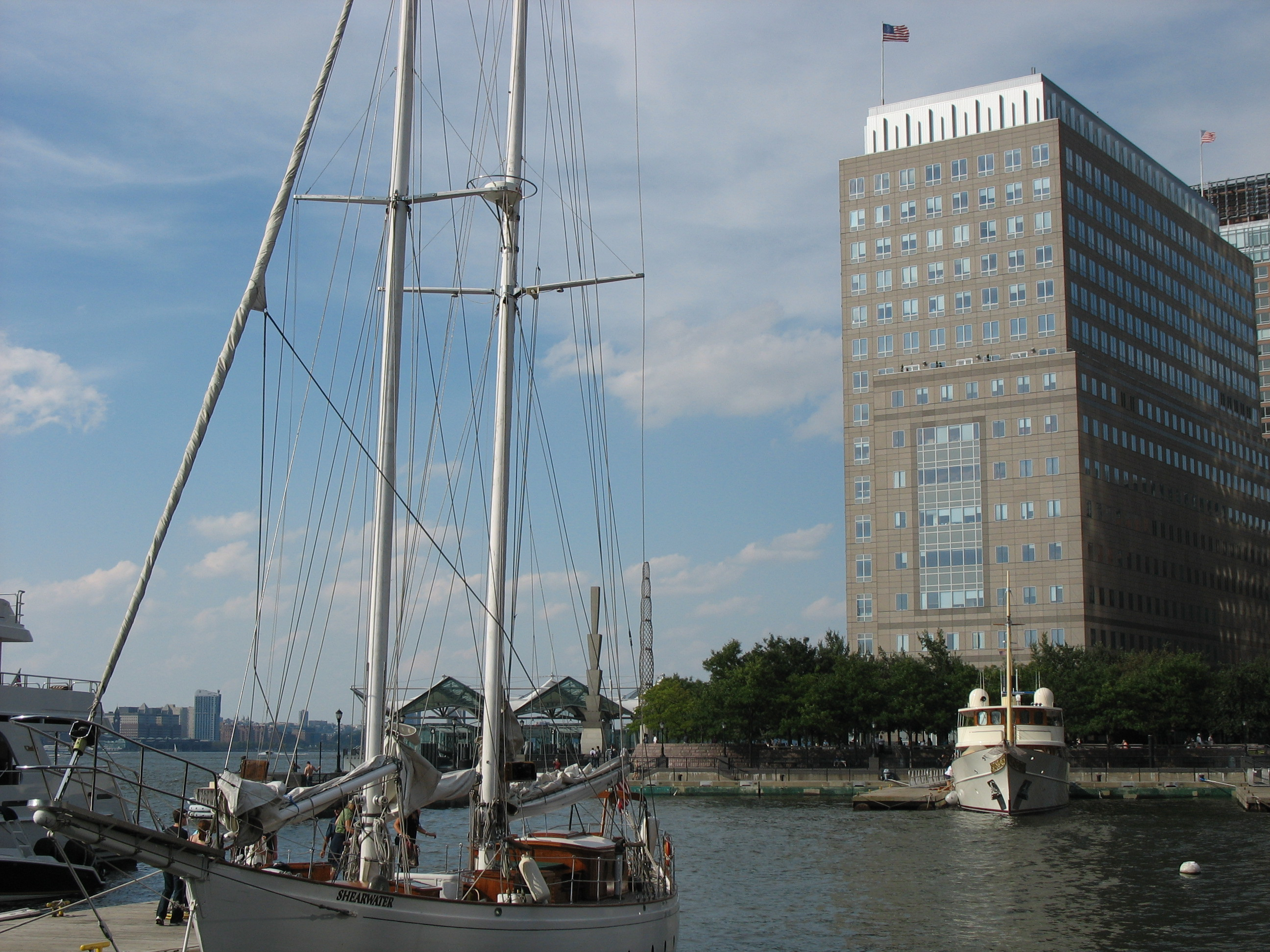 Building of the New York Mercantile Exchange (NYMEX) at One North End Avenue, New York, NY 10282, which also houses the New York Board of Trade (NYBOT)